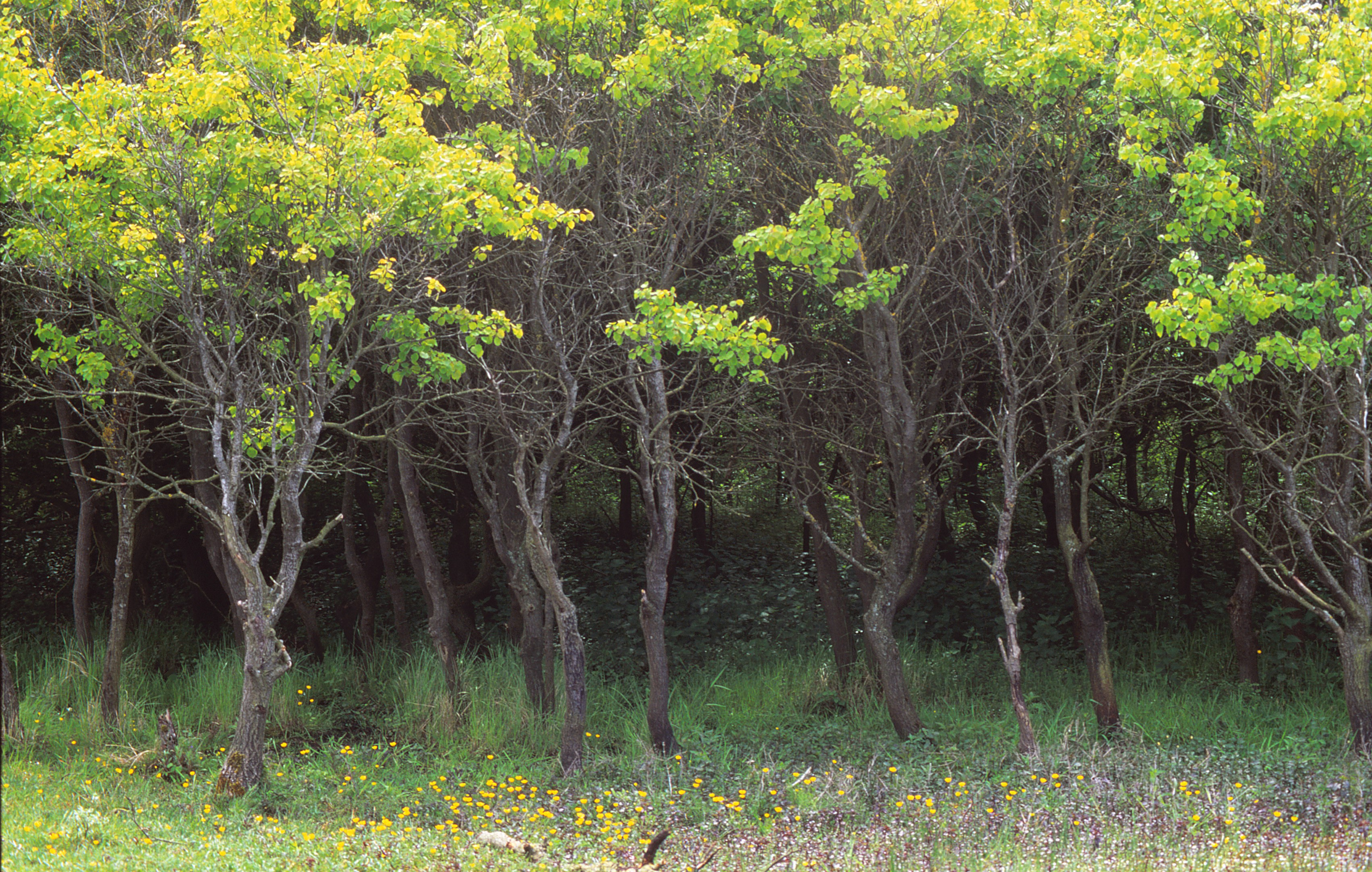 A group of Aspen (Populus tremula) not far from the sea. Heerenduinen, Zuid-Kennemerland national park, Netherlands.